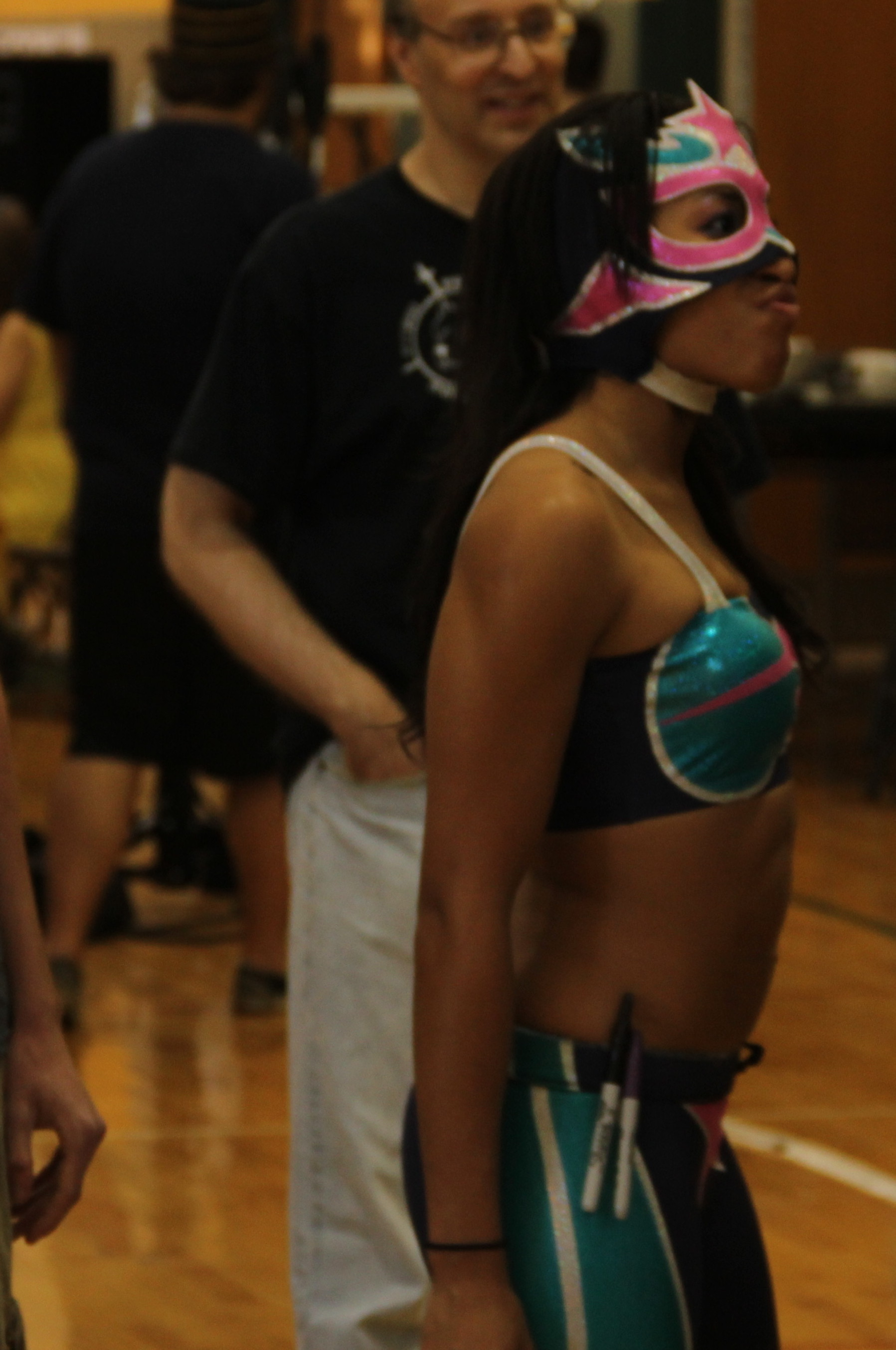 Professional wrestler Saturyne at Chikara King of Trios 2012 Fan Conclave.